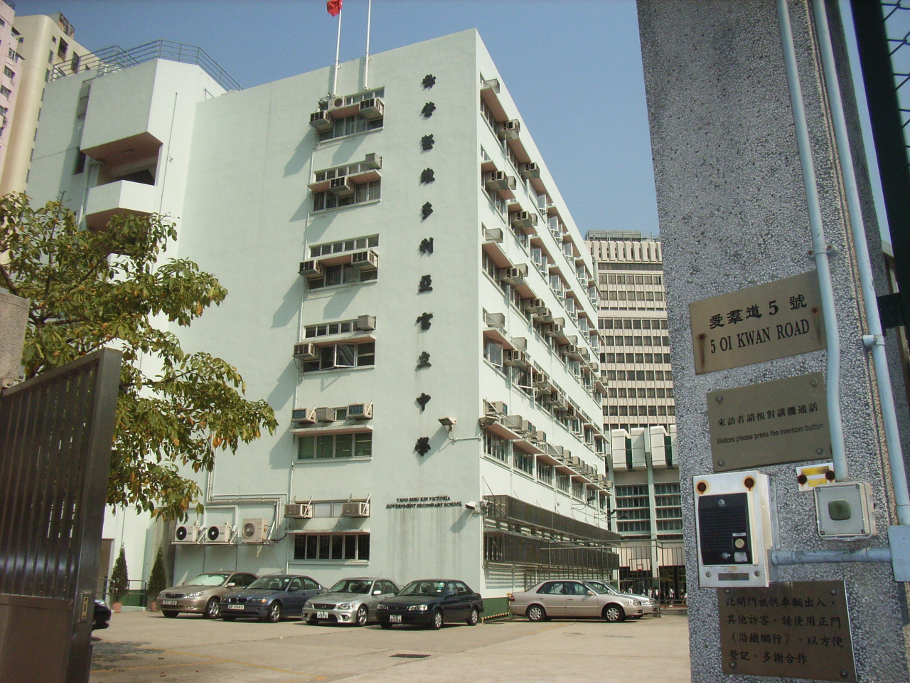 Around the Oi Kwan Road, Wan Chai, Hong Kong Author:Wenzi MHTI